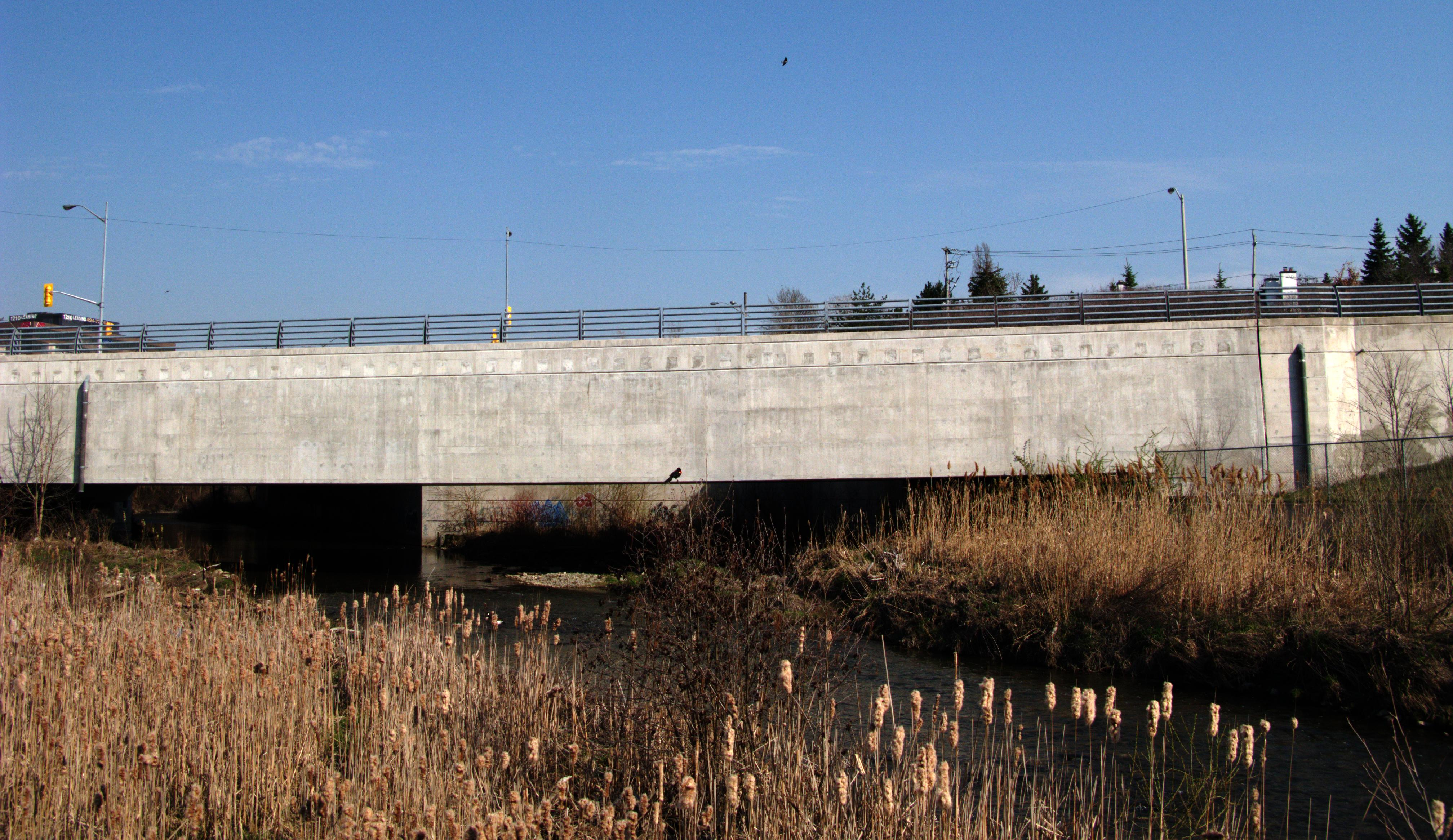 Sheppard subway tunnel crossing the East Don